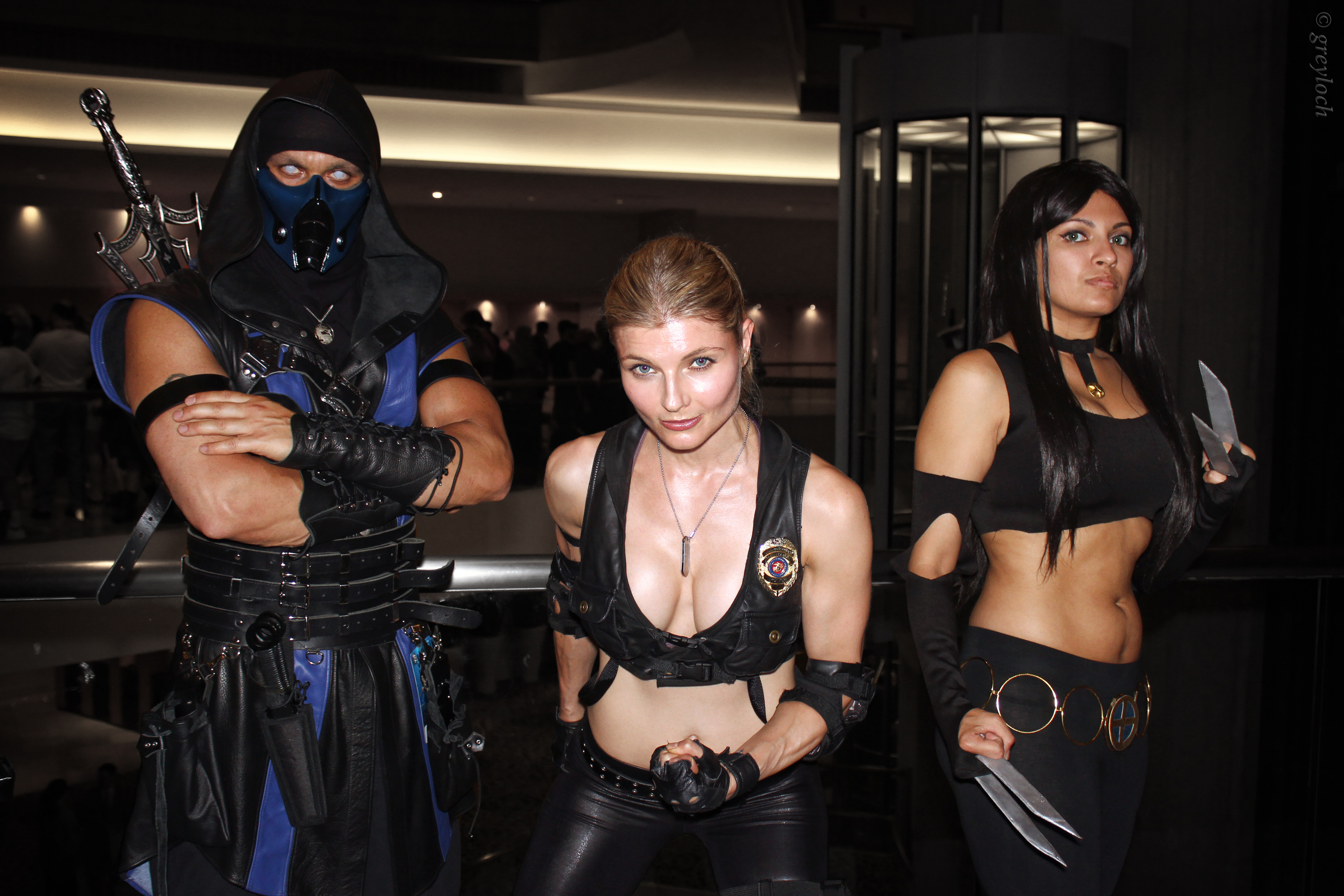 Same Sonya Blade from last year but with some new companions, Sub-Zero (I think he was Scorpion last year) and X-23 (they just met her at the con and decided to all pose together). I actually had a lot of fun masking out the cosplayers in this pic - to lighten them up and better define them from the black background.